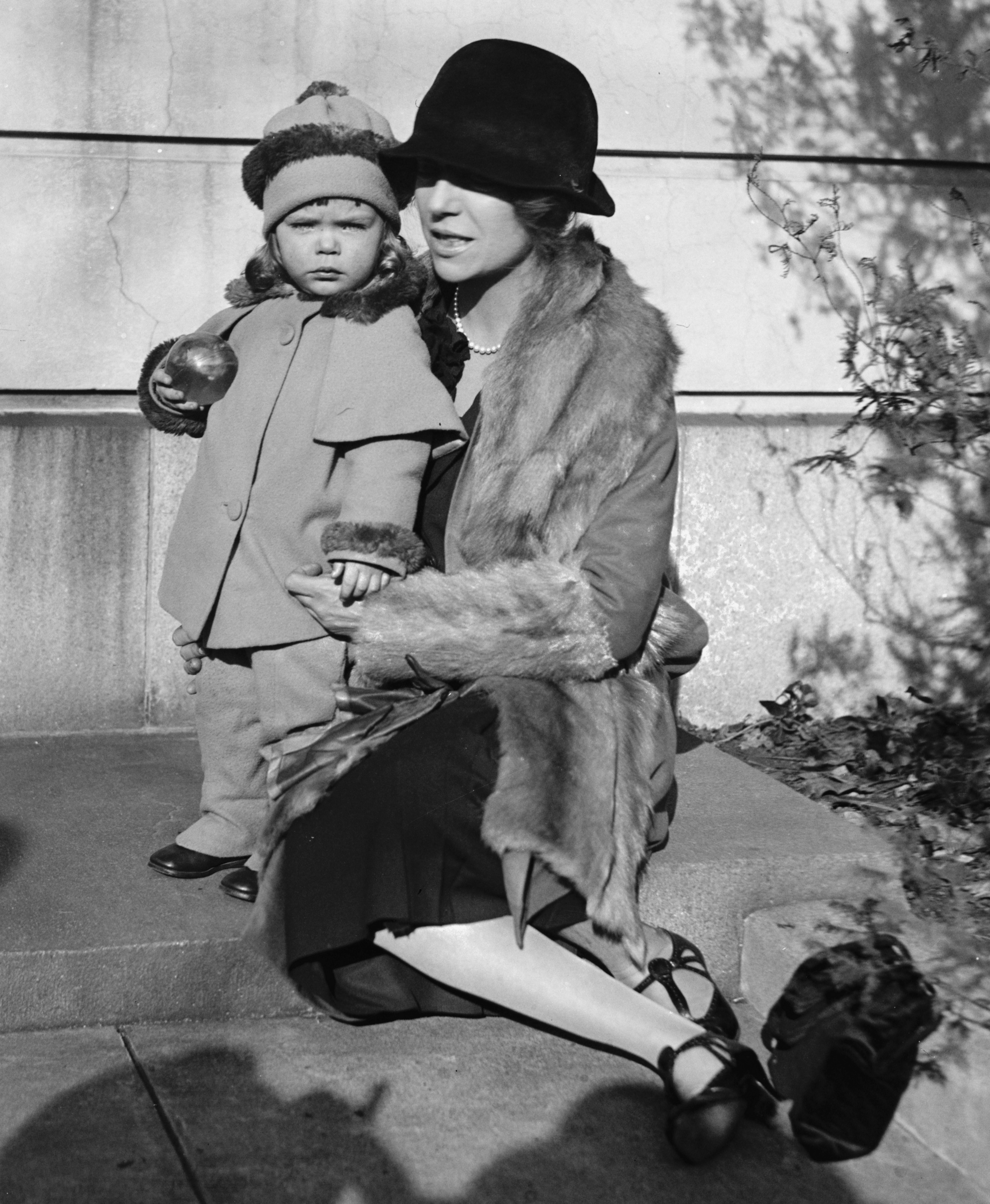 Paulina Longworth (age 2) and mother Alice Roosevelt Longworth